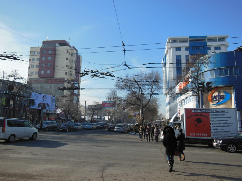 Vefa mall in Bishkek